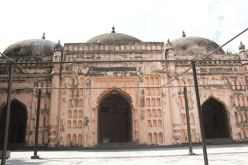 This picture was taken on September 26th, 2016 by Saeed Ahmad.